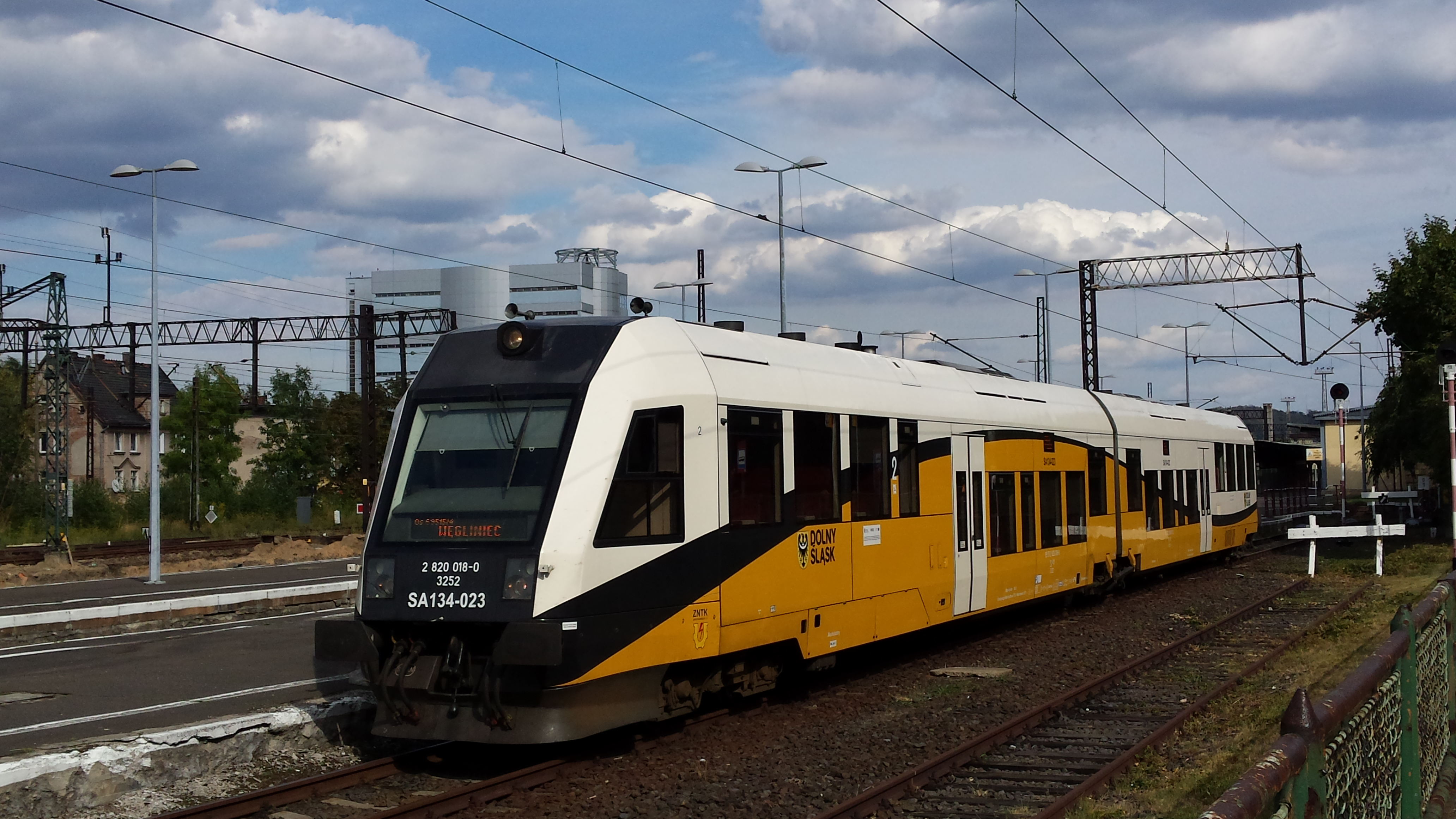 Pesa 218M (series SA134) on Jelenia Góra train station